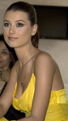 Miss Universe Visit to earth Infrastructures Limited.